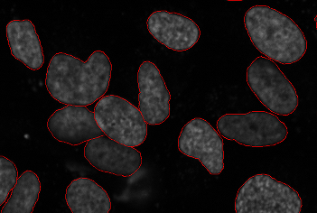 This is a hand-segmented image of the mouse fibroblasts (NIH 3T3). Nuclear channel is shown.